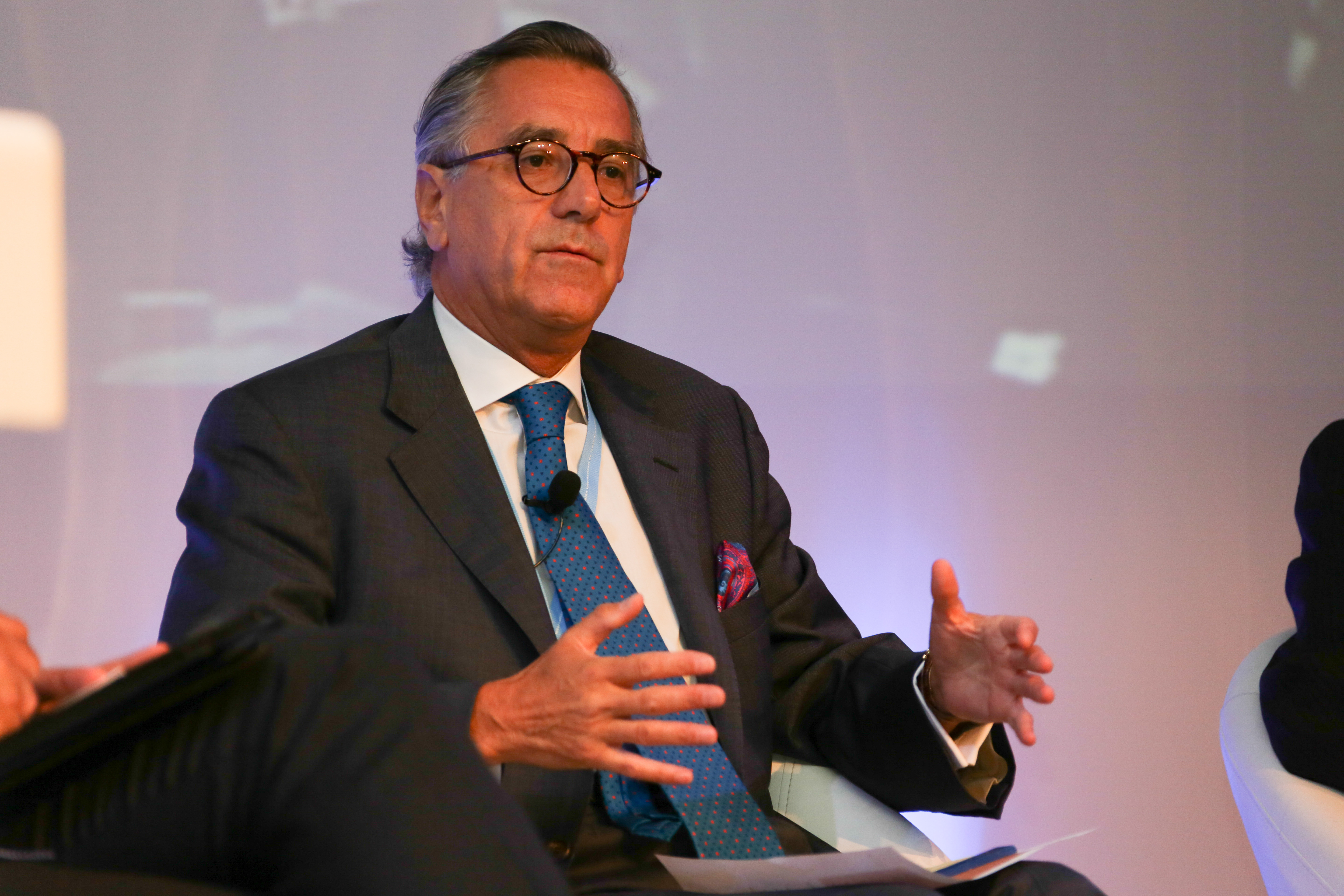 Néstor Osorio Londoño at the Global Youth Summit, in San Jose, Costa Rica. in 2013